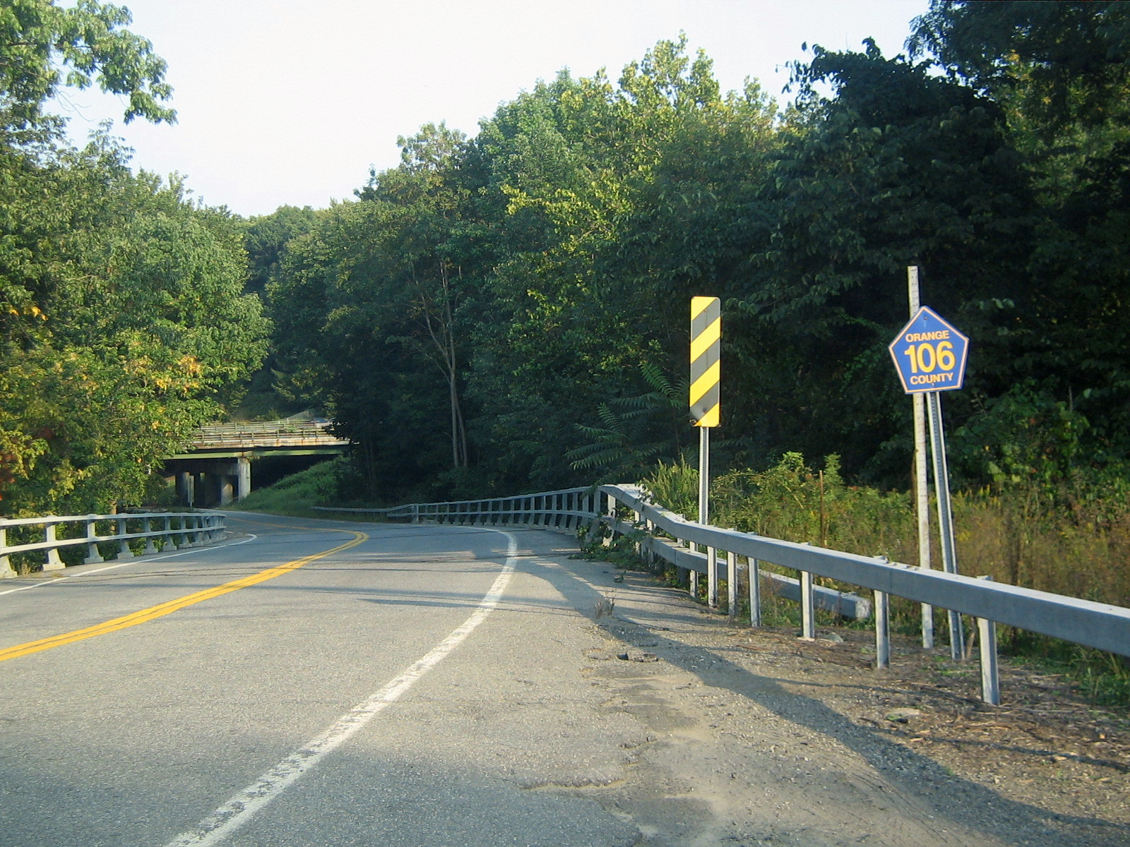 The western terminus of CR 106 facing east in Southfields, just after the interchange with New York State Routes 17 and 17A, but before it crosses a bridge over the Ramapo River, and then beneath the underpass of the New York State Thruway.